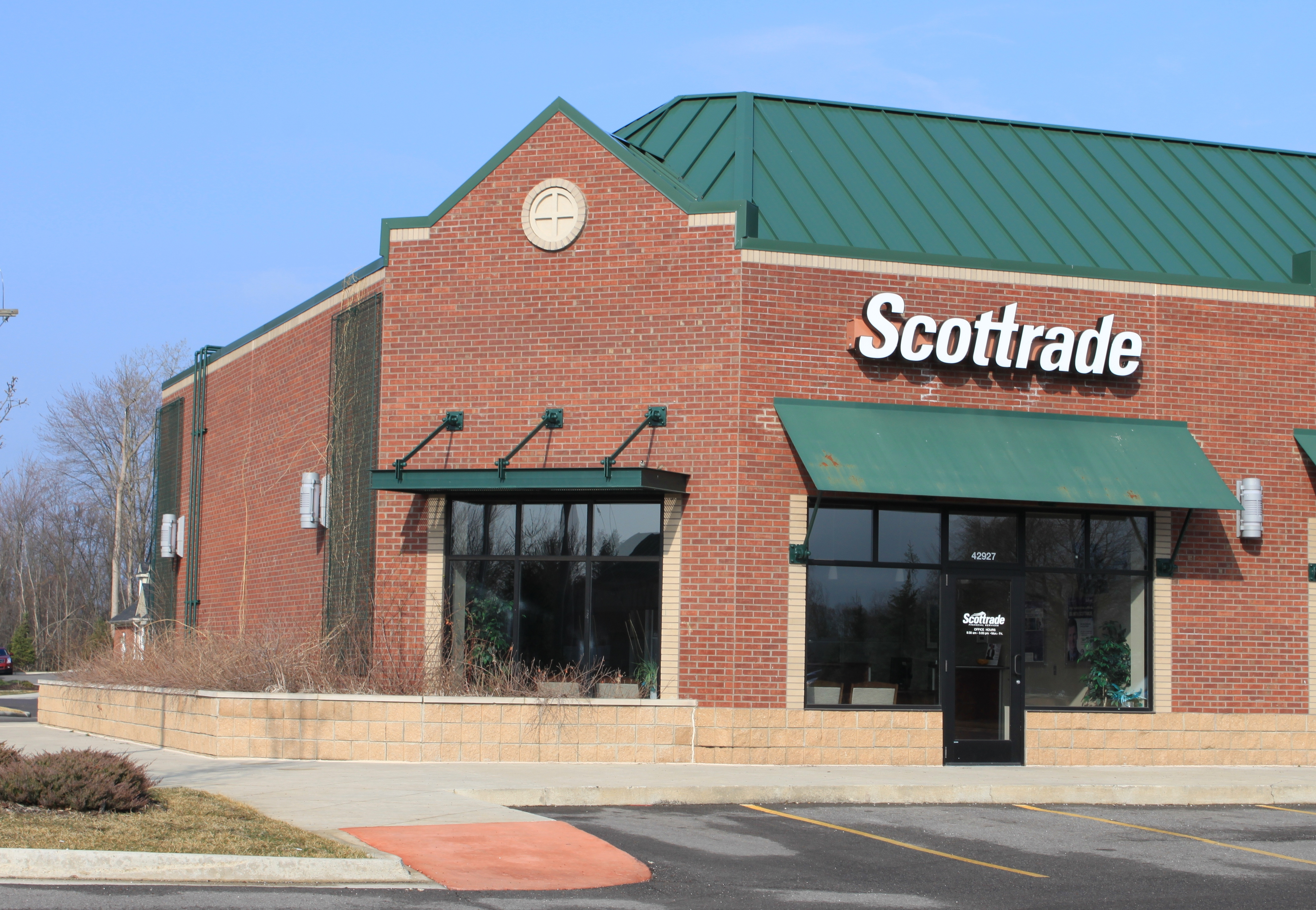 Scottrade office, 42927 Ford Road, Canton Michigan